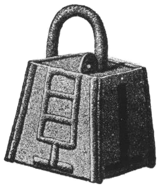 Viking age padlock. Found on Björkö in Mälaren, Sweden